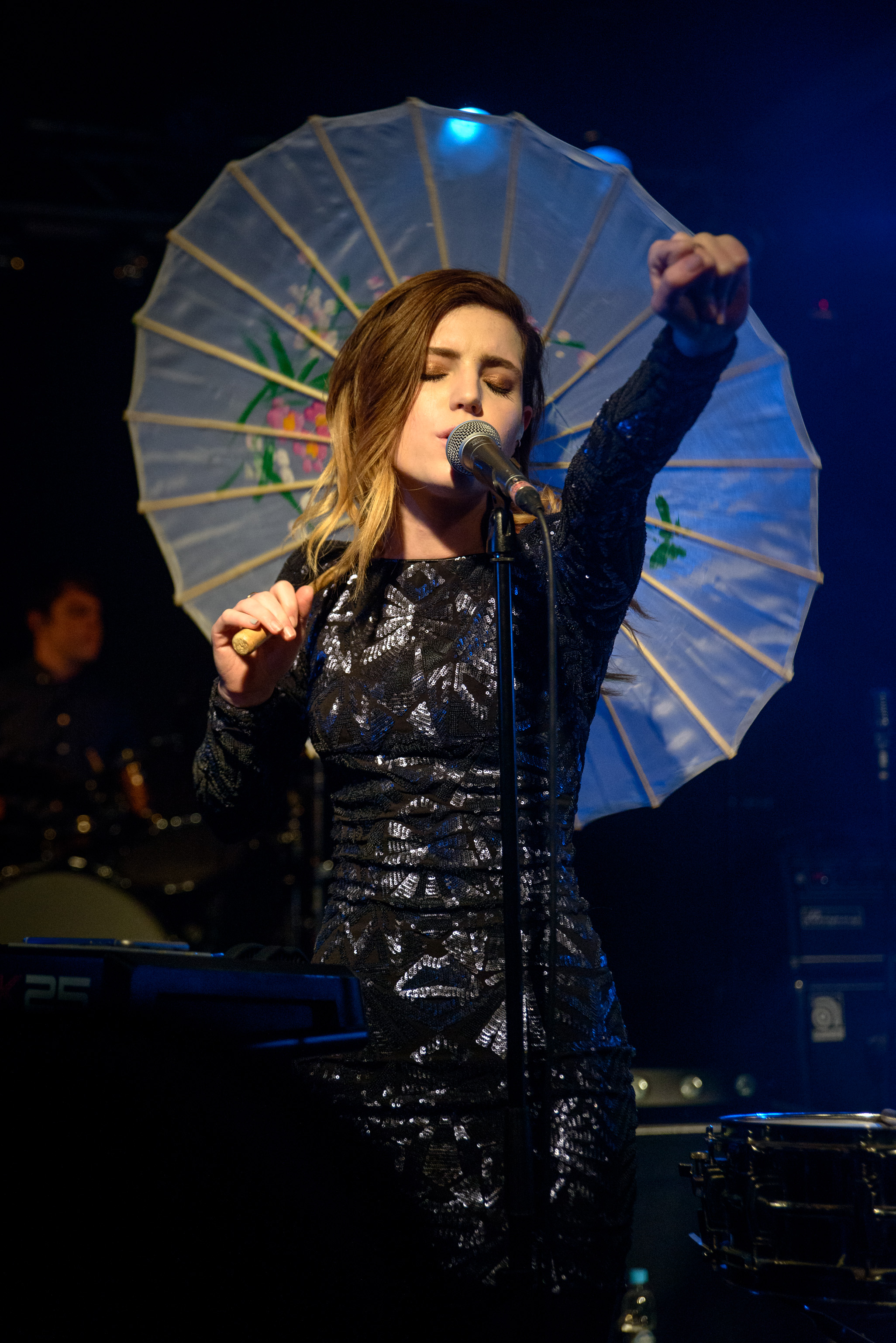 Echosmith in Munich 2015